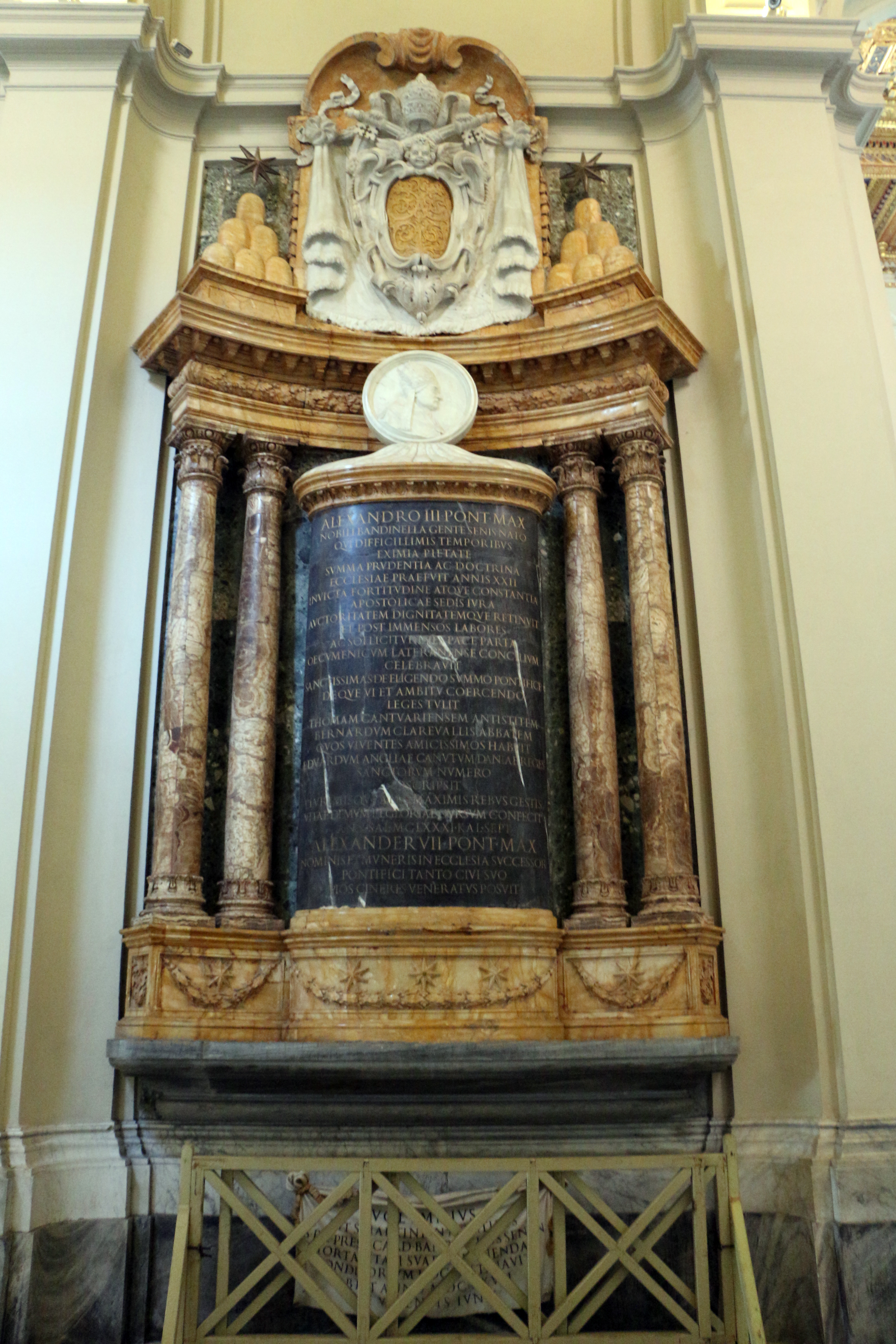 San Giovanni in Laterano (Rome) - Interior